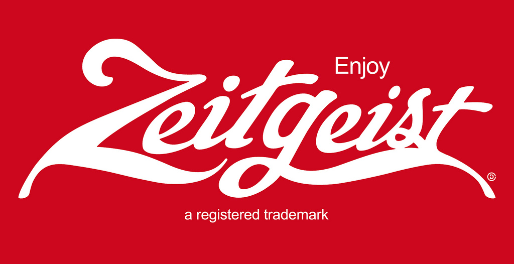 The Zeitgeist (spirit of the age) is the intellectual fashion or dominant school of thought that typifies and influences the culture of a particular period in time.